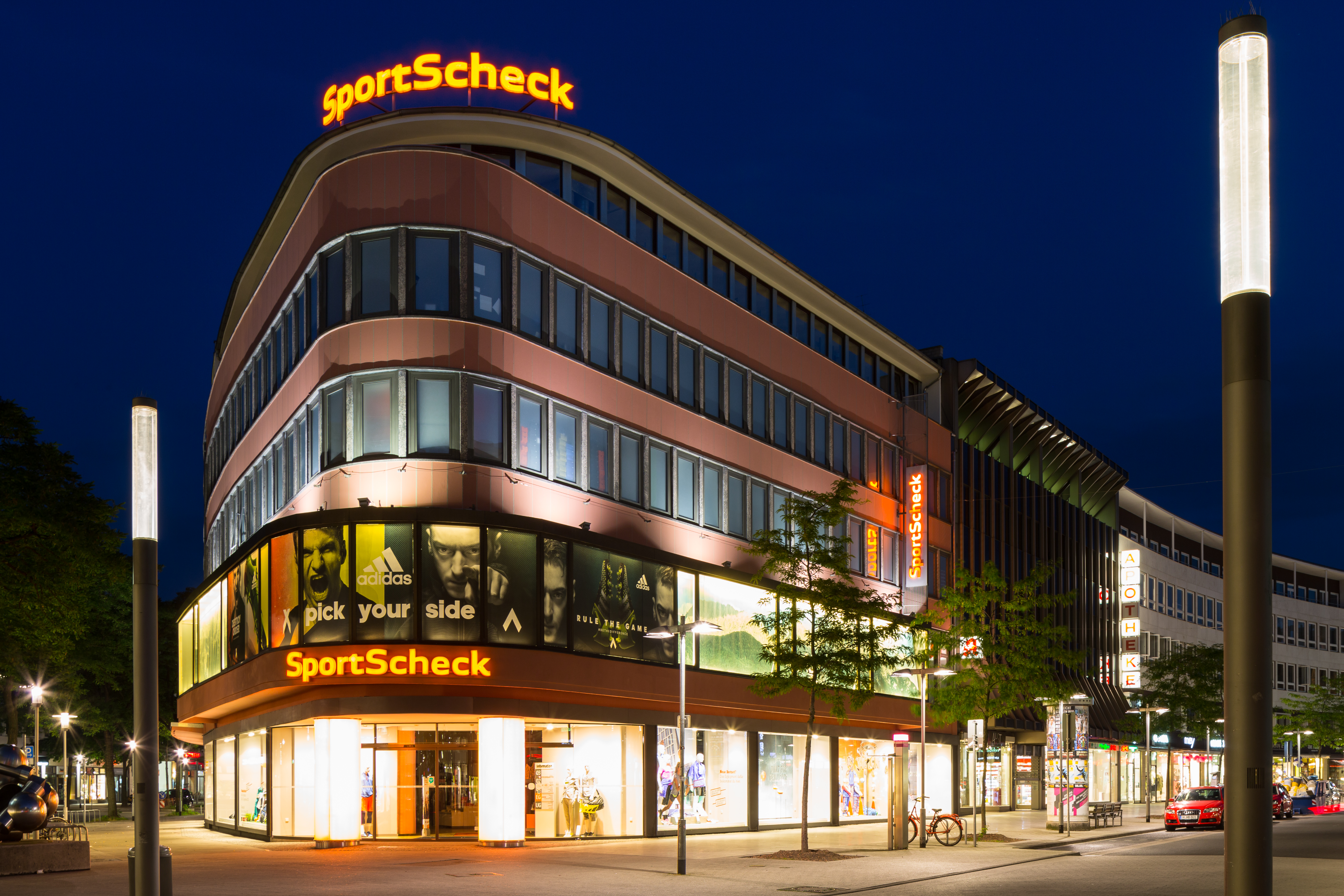 Store and business building of SportScheck sports goods seller, located at Osterstrasse and Karmarschstrasse in Mitte quarter of Hannover, Germany.